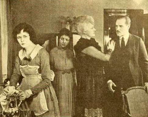 Still from the American film A Midnight Romance (1919) with Anita Stewart, Helen Yoder, Elinor Hancock, and Jack Holt, from an ad on page 1295 of the March 8, 1919 Moving Picture World. The caption for the still states: "So, my beautiful, charming young companion is only a cheep adventuress," he sneered. Marie stifled a desire to speak - to tell him.